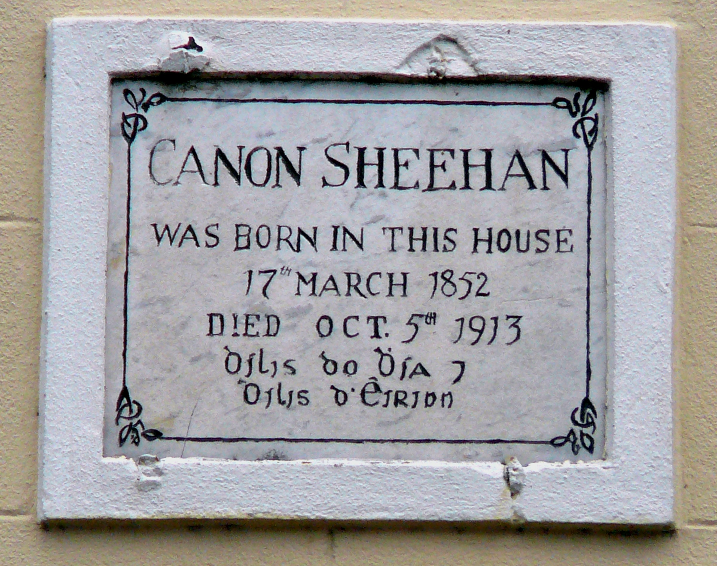 Canon P. A. Sheehan birthplace plaque, displayed on the wall of the house where he was born in 1852, lower end of William O'Brien Street, Mallow, co Cork, Ireland